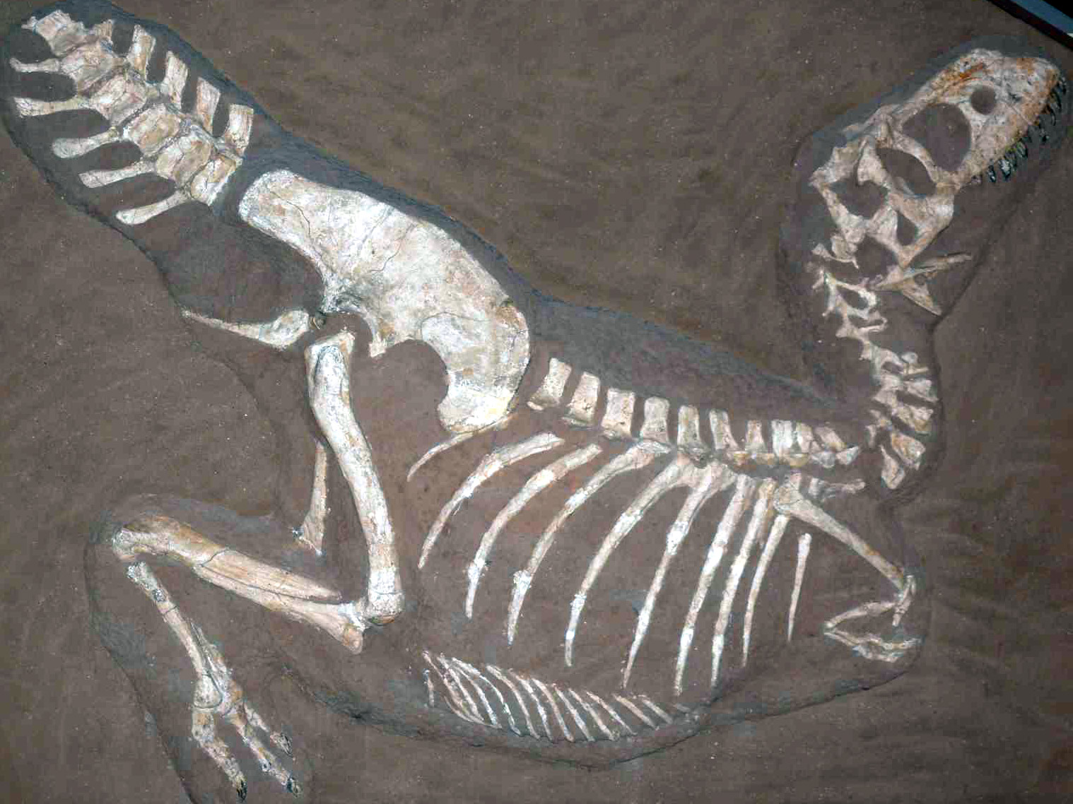 Cast of a Tarbosaurus bataar skeleton on exhibition in Münster, Germany, at the Westphalian Museum of Natural History (original specimen number PIN 553-1, preserved at the Paleontological Institute, Russian Academy of Sciences, holotype of Gorgosaurus lancinator Maleev, 1955). An identical cast is on exhibition at the Galerie de paléontologie et d'anatomie comparée in Paris, France.